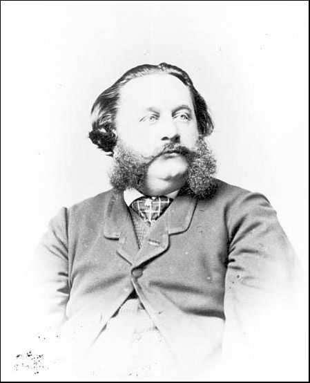 Alfred Jaell, austrian pianist and composer